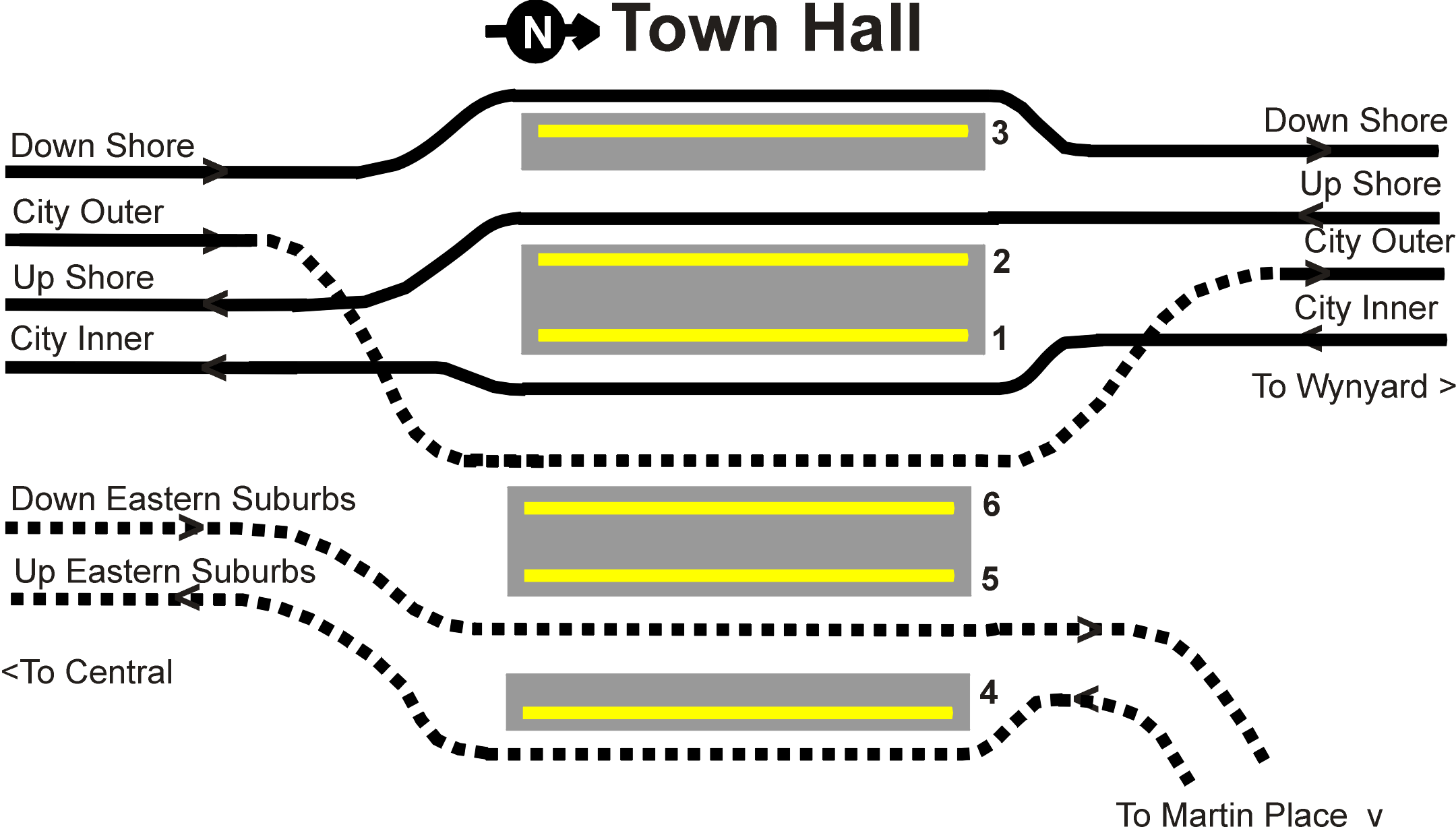 Track arrangement at Town Hall railway station, Sydney